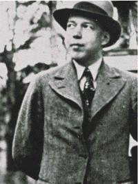 Mika Waltari (September 19, 1908 – August 26, 1979), a finnish novelist.